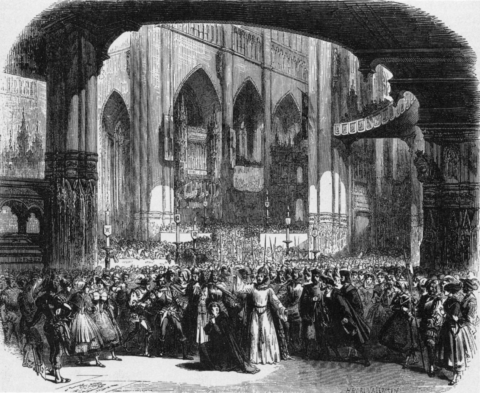 Act IV, scene 2, of Giacomo Meyerbeer's grand opera Le prophète as first performed on 16 April 1849. Engraving published in L'Illustration on 24 April 1849.